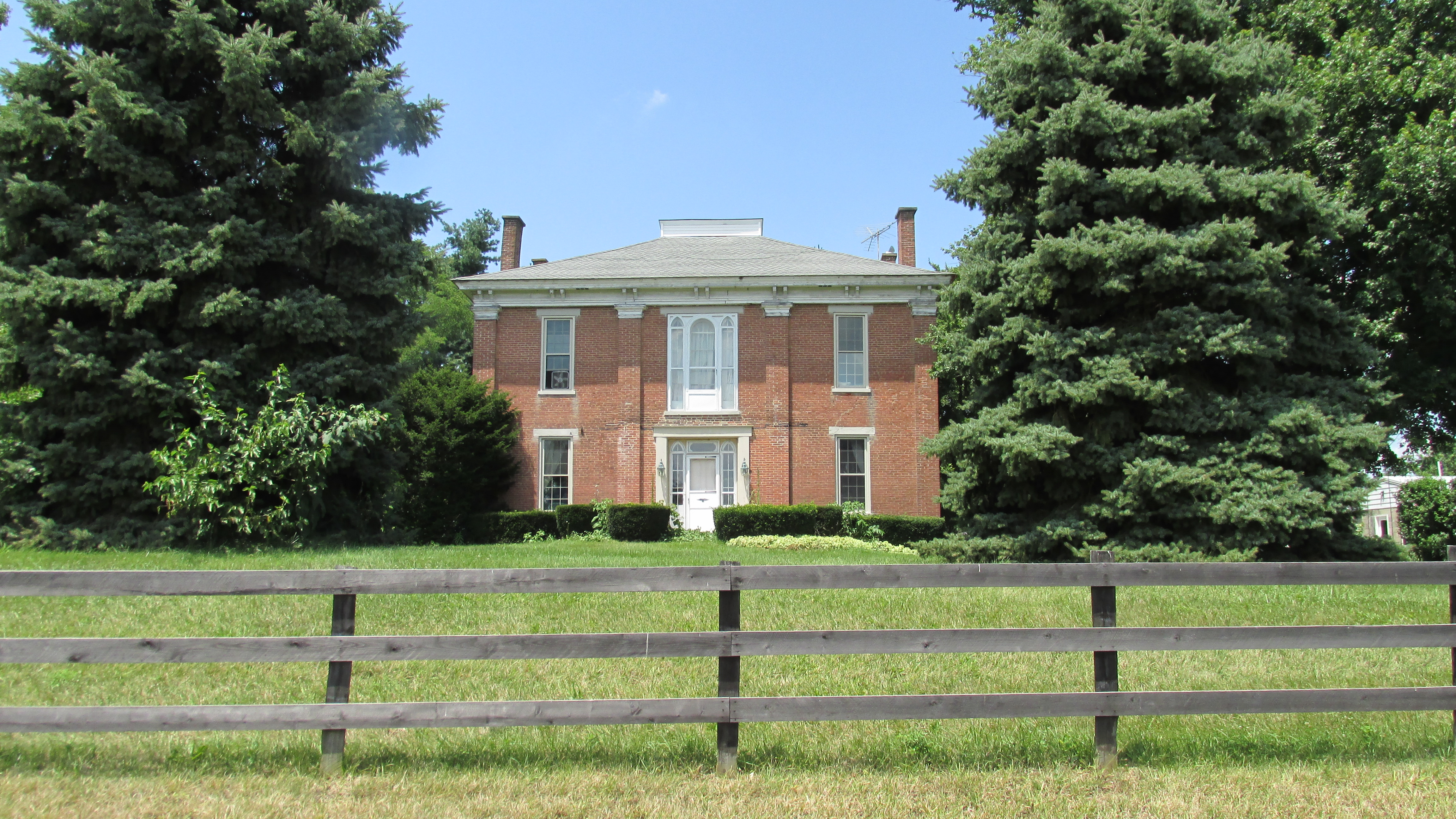 The Hirons-Brown house located in Highland County, Ohio.